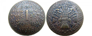 1 ruble 1918, Armavir